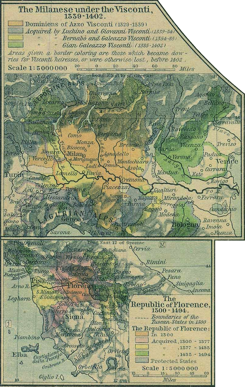 Expansion of Milan and Florence during the 14th and 15th centuries